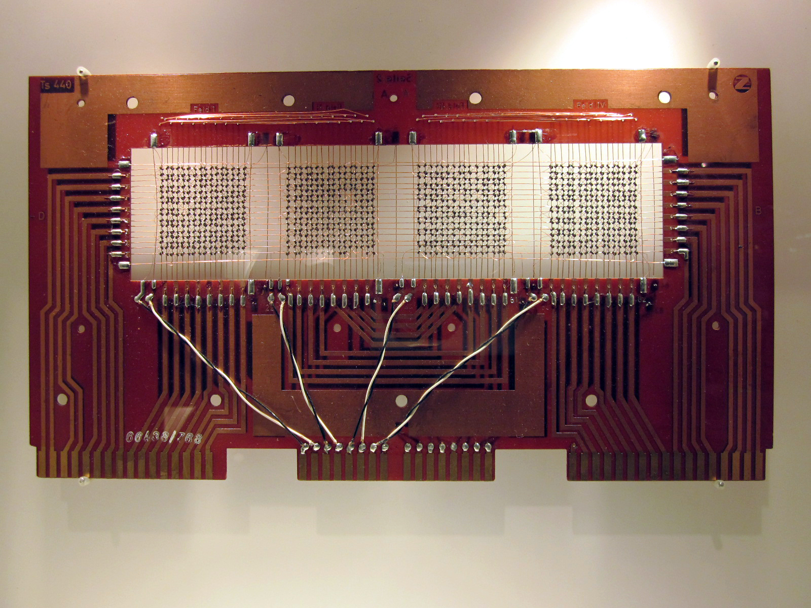 ferrite-core memory Included in the computers of the Zuse KG from type Z22, Z23 and Z25